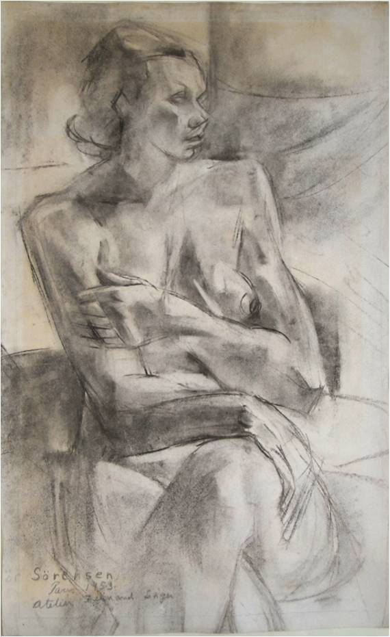 Autor: Carlos Haraldo Sorensen Desenho de lápis sobre papelão Nudez Data: 1953 Local: Atelier Fernand Léger